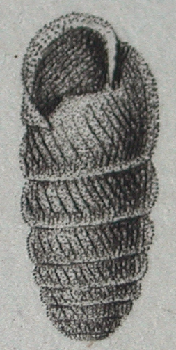 Figure of landsnail species Cylindrus obtusus (Holotype).